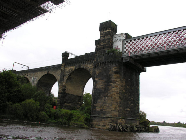 Runcorn Railway Bridge Detail of the southern abutment of the railway bridge at Runcorn, viewed from the Ship Canal.